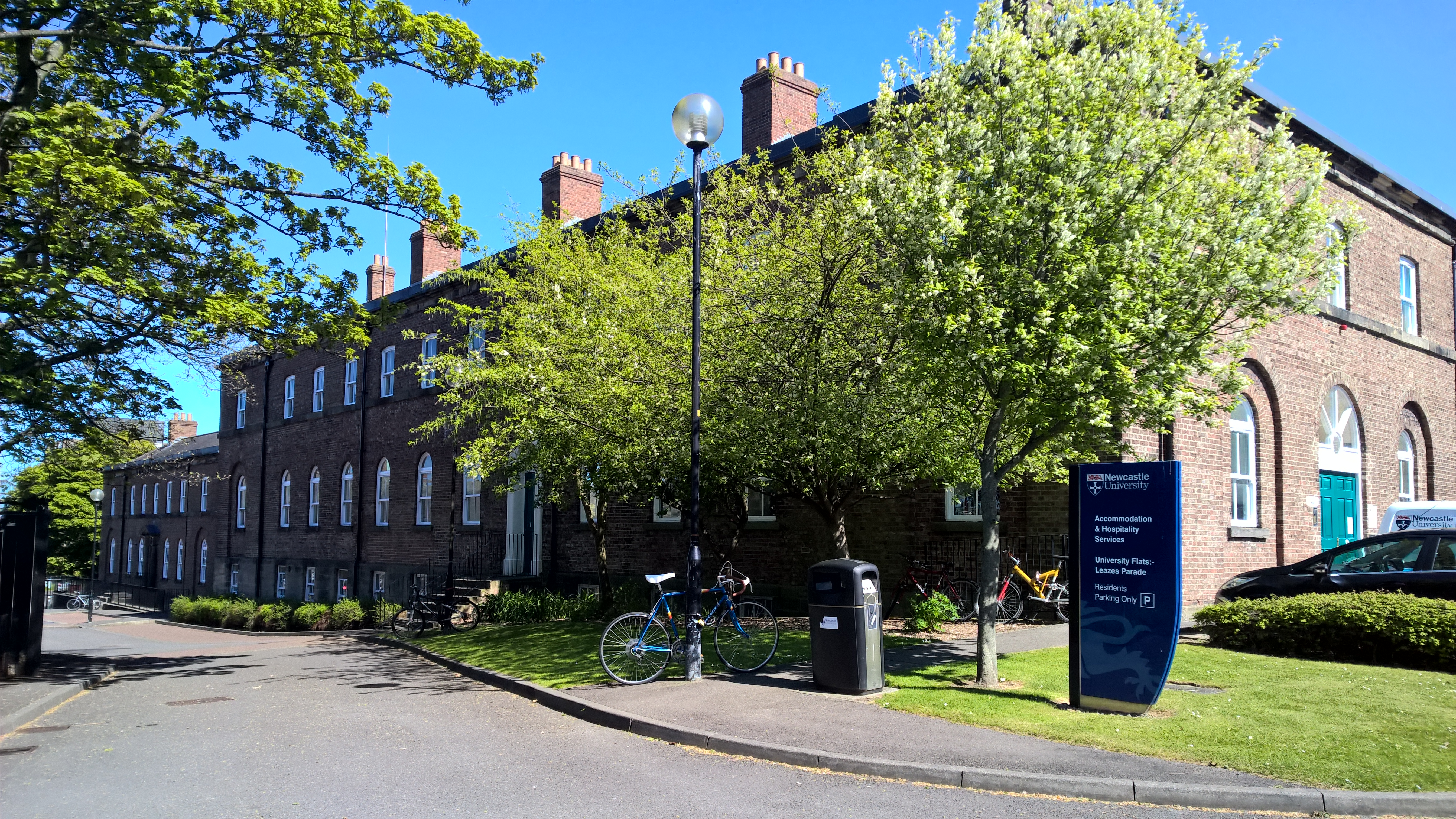 These buildings, along with twin guard houses at the entrance, are the only surviving elements of a once extensive Georgian artillery barracks, dating from 1804.